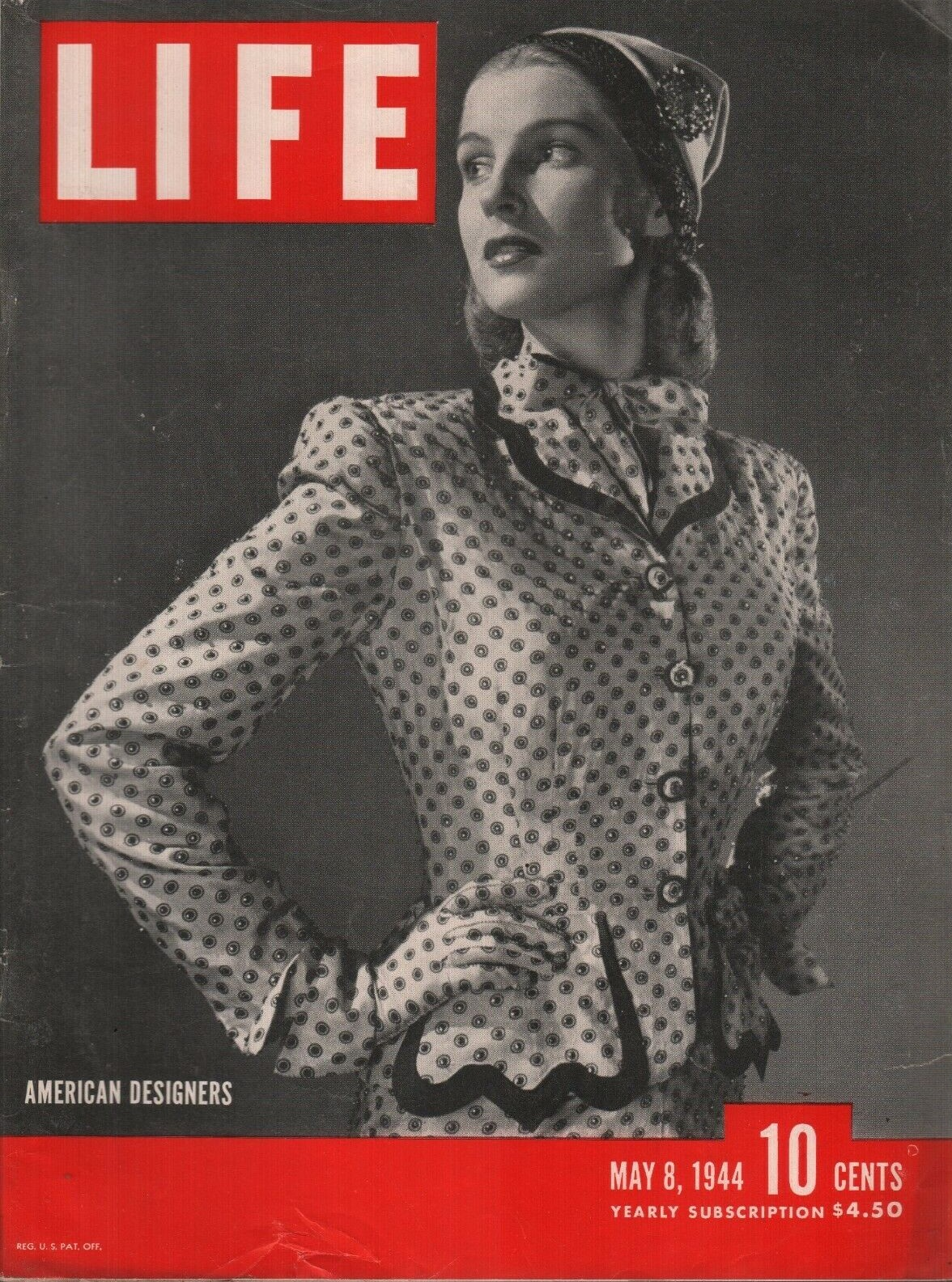 Lynn Davis bears the label of Hattie Carnegie, America's No.1 fashion designer, Life Magazine, 8 May 1944 [1]